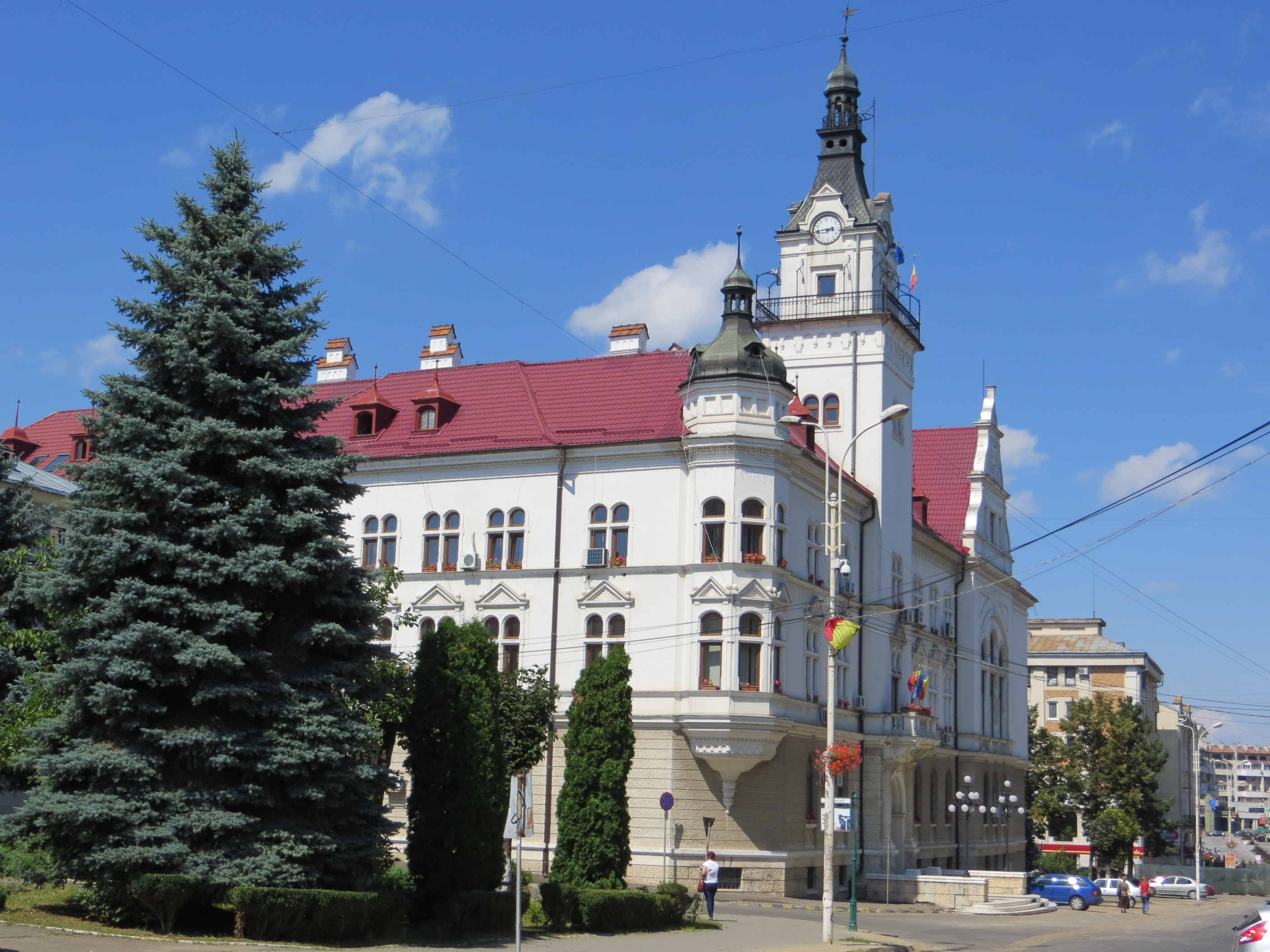 The Administrative Palace in Suceava.